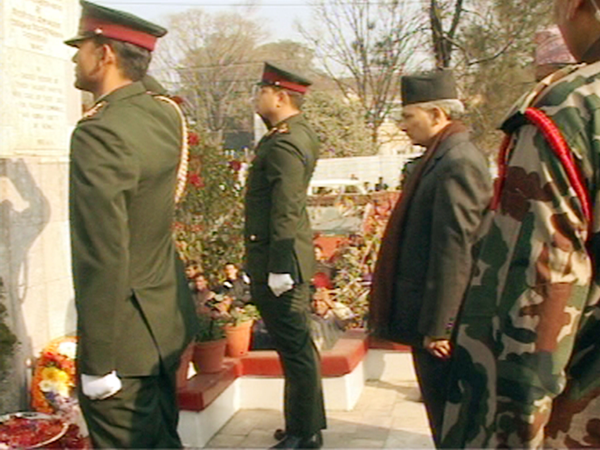 Nepali PM on Martyr's Day 2012.